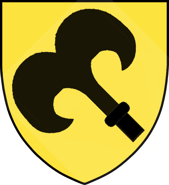 Coats of arms of the pre-royal House of Vasa, from older medieval period